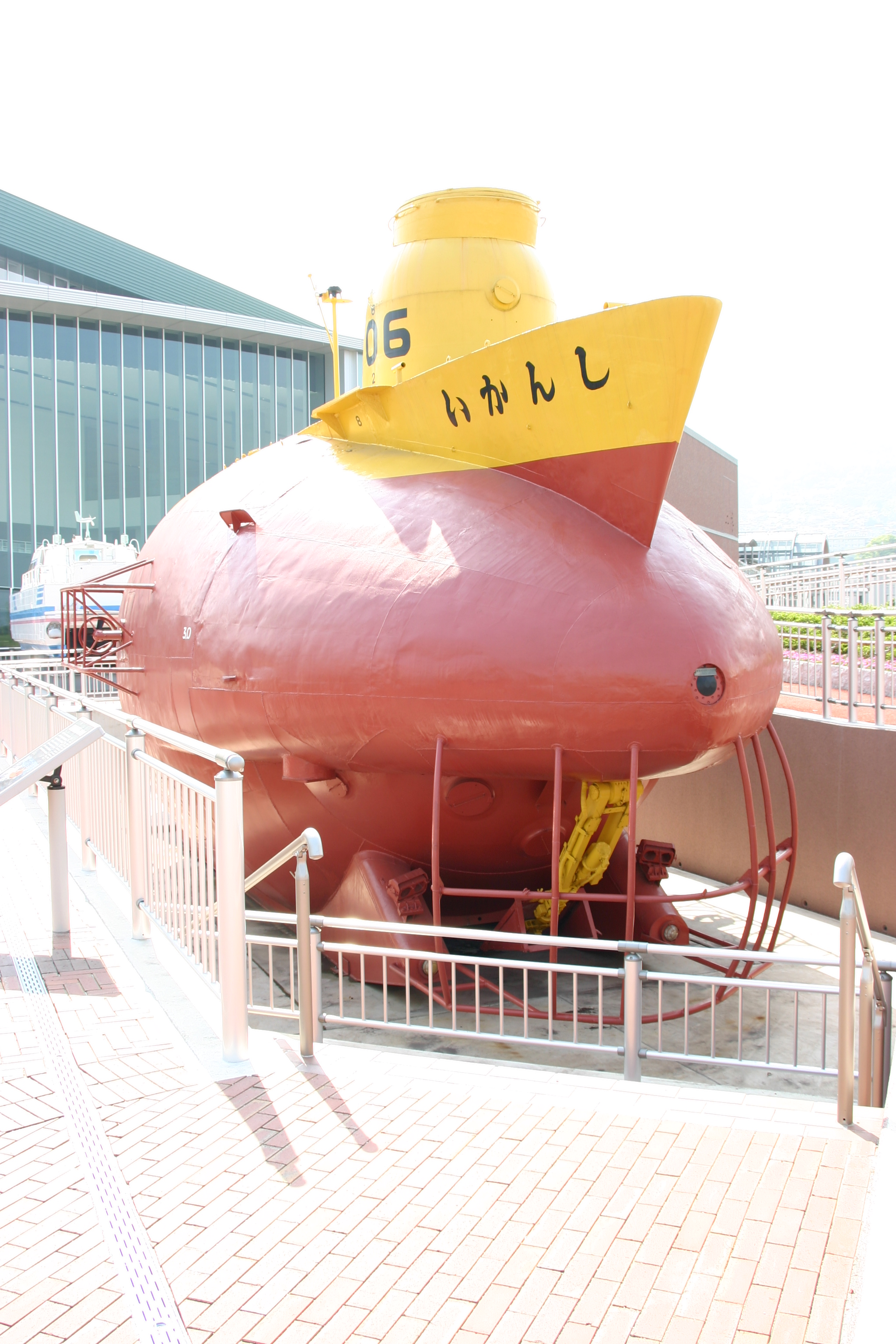 Bow of Japanese submersible Shinkai